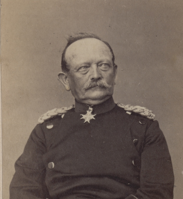 CDV (carte de visite) of Eduard von Fransecky (1807-1890), Prussian general, taken about 1867 in Berlin by the Photographischen Gesellschaft Berlin.